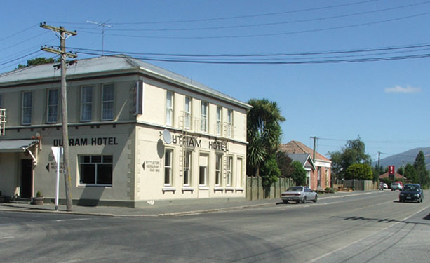 Outram Hotel, in the New Zealand town of Outram, photographed by James Dignan (User:Grutness) in February 2008